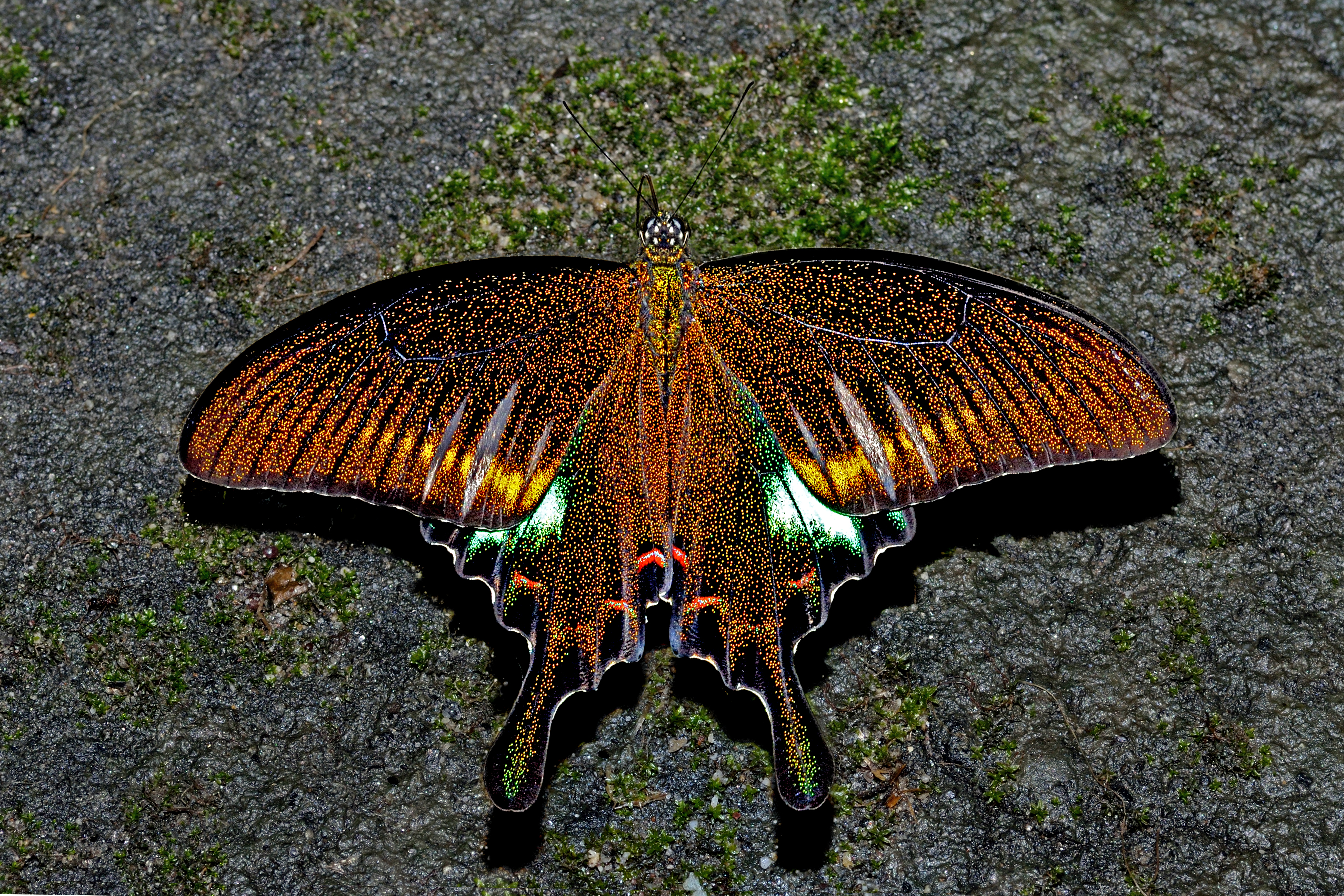 Open wing position mud-puddling of Papilio bianor Cramer, 1777 – Common Peacock. Subspecies: Papilio bianor ganesa Doubleday, 1842 – East Himalayan Common Peacockঅসমীয়া: পাখি মেলা অৱস্থাত mud-puddling কৰি থকা Papilio bianor Cramer, 1777 – Common Peacock পখিলা ।এই নমুনাটো Papilio bianor ganesa – East Himalayan Common Peacock উপ-প্ৰজাতিৰ অন্তৰ্গত ।